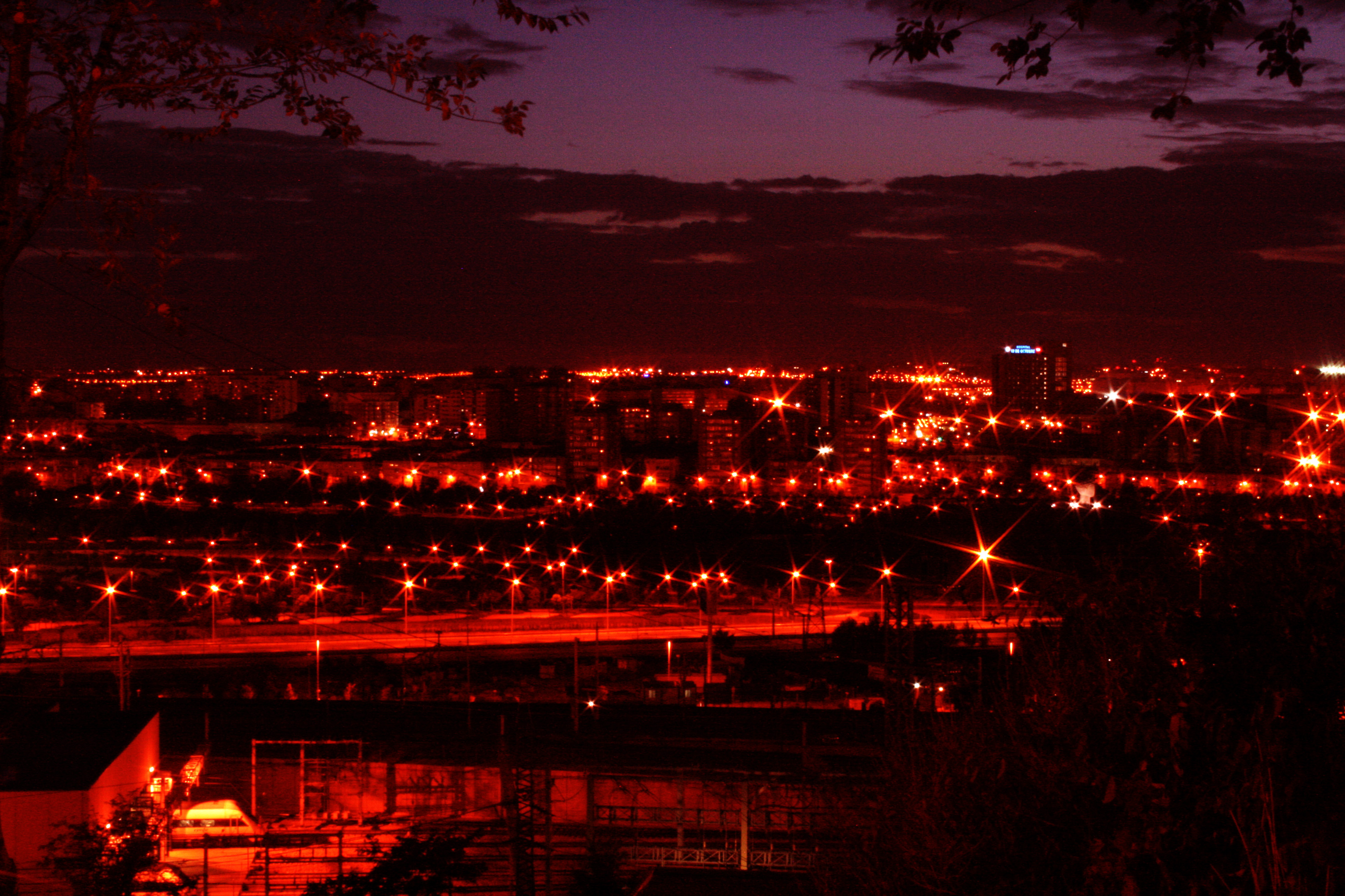 Night view of Madrid (Spain). Image taken from Ronda del Sur (street), in Entrevías neighborhood (Puente de Vallecas district).